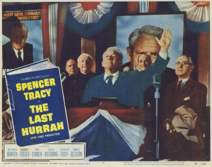 Original poster for the 1958 film The Last Hurrah. Public domain explanation Under the terms of the 1909 Copyright Act (which was law until 1978), any copyrighted item had to have that copyright renewed in the 28th year following registration, otherwise it irrevocably entered the public domain. Searching for "The Last Hurrah" with The US Copyright Office shows that the film had its copyright renewed, but there is no indication that any other material relating to the film did.